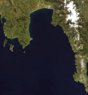 Satellite picture of Messenian Gulf, Greece.